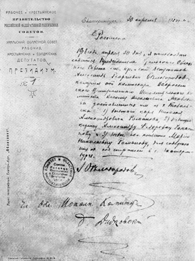 Photo № 13. The receipt issued by Commissar Yakovlev during detention of the Emperor, the Empress and Grand Duchess Maria Nikolayevna in Yekaterinburg.